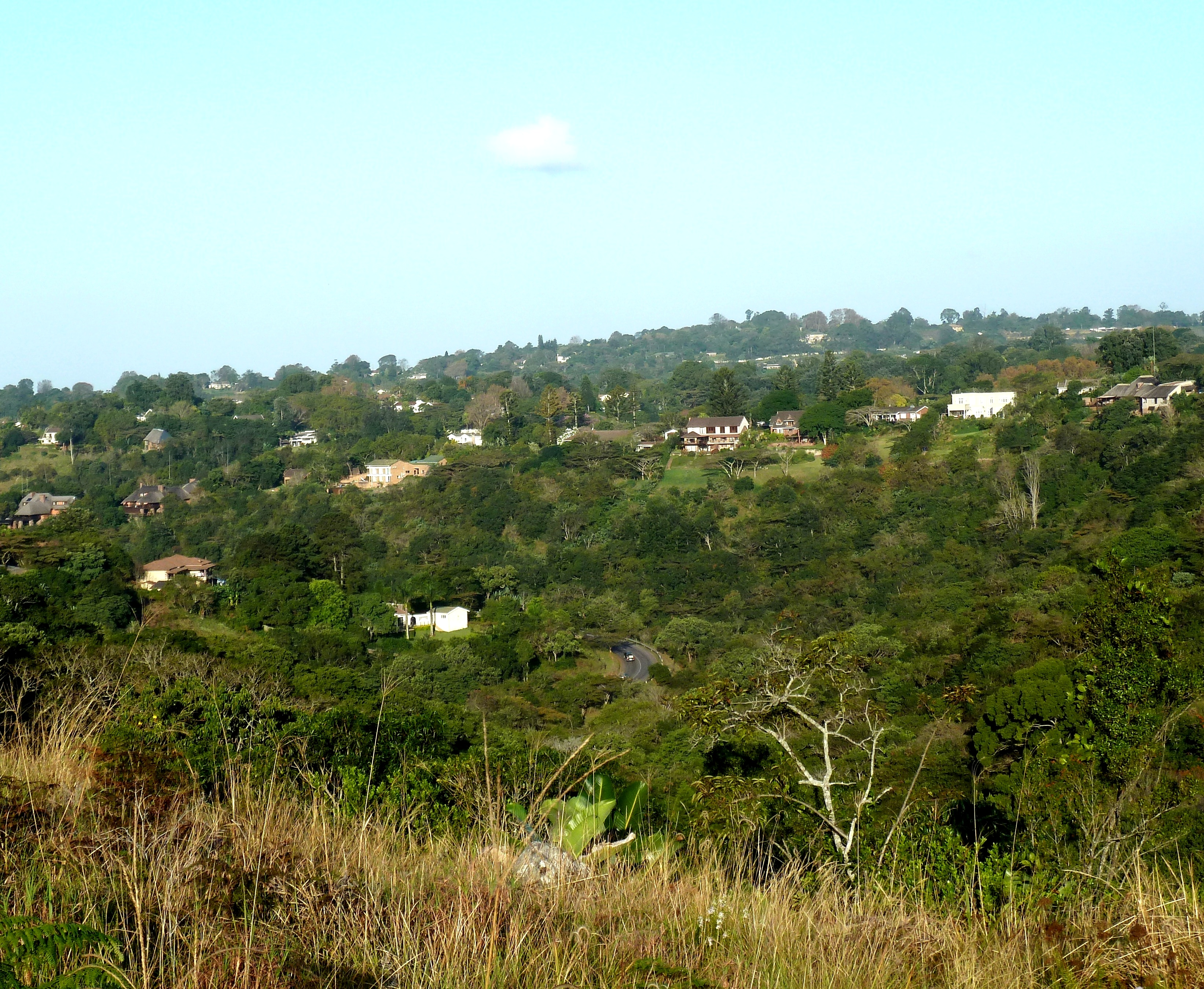 A section of suburban Kloof, KwaZulu-Natal, seen from the heights in Krantzkloof Nature Reserve